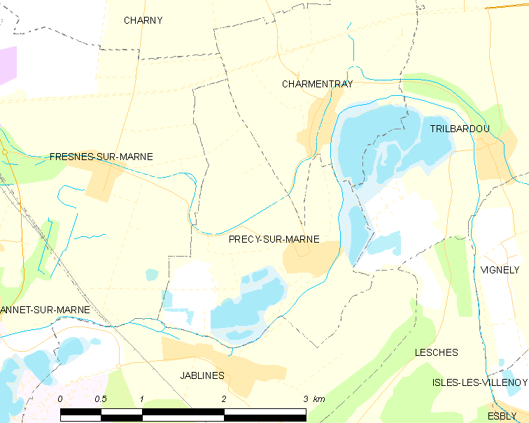 Map of French municipality Précy-sur-Marne